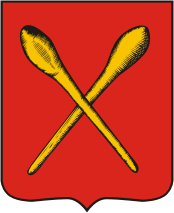 Aleksin (Tula oblast), coat of arms (1778)